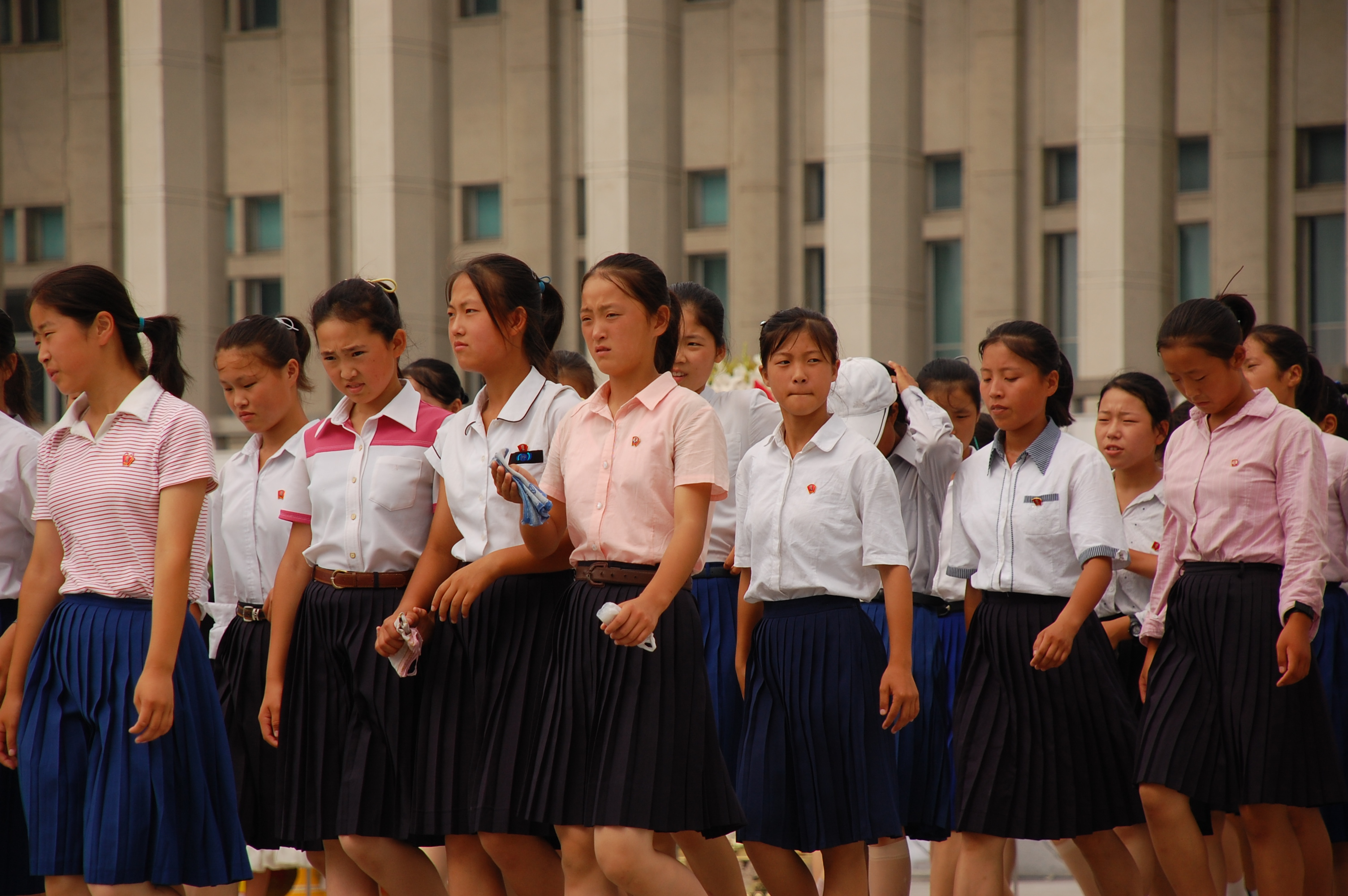 North Korea — Pyongyang.